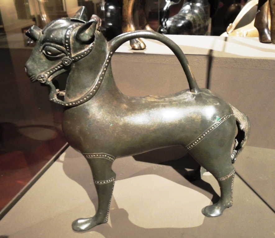 Aquamanile horse (Bohemia? 13c.) Prague, Mus of Appl Arts